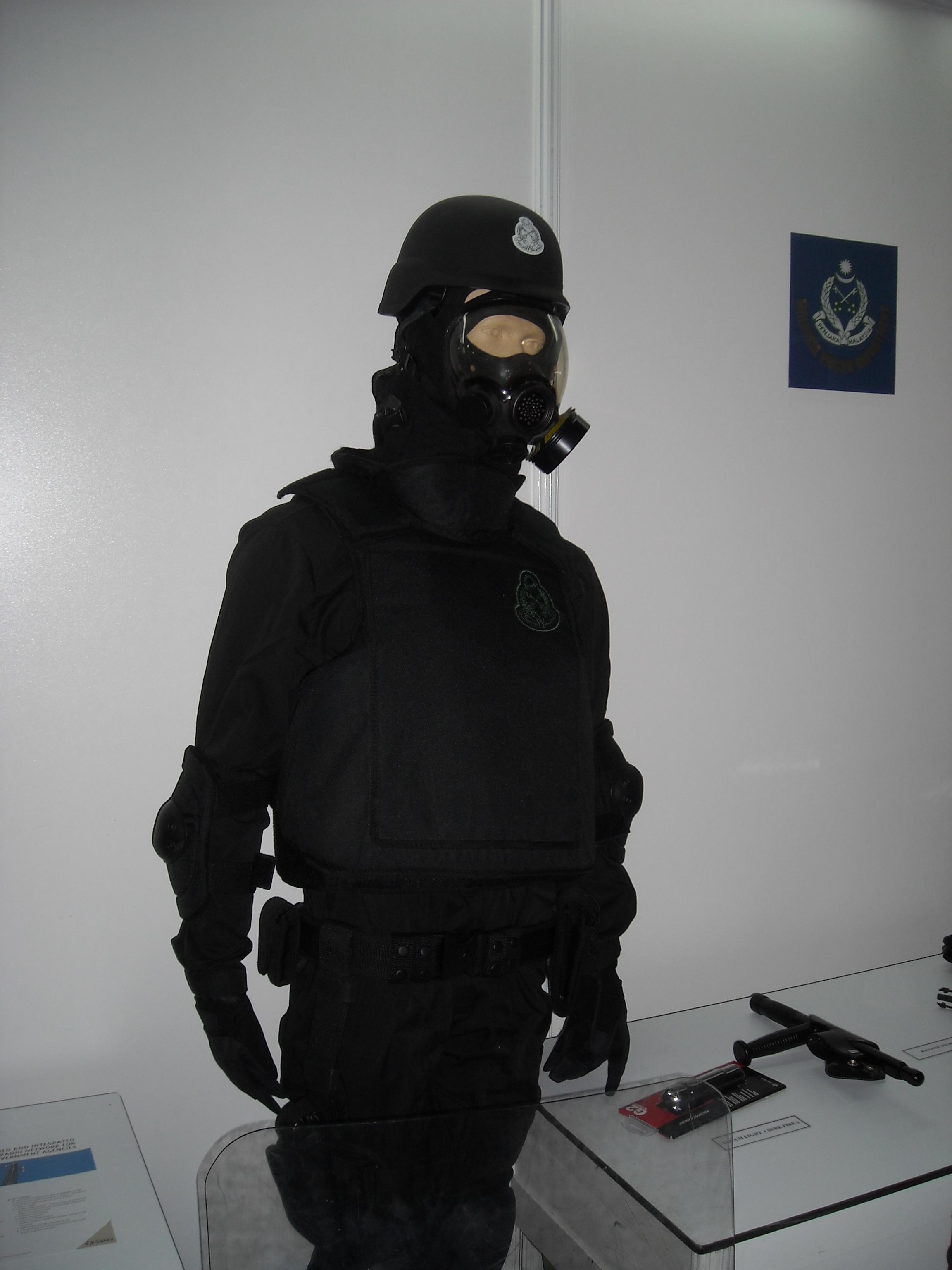 The special operations force of Malaysian Prison Department, Trup Tindakan Cepat model with Counter-Terrorism Battle Dress Uniform. Taken by me at Putra World Trading Centre (PWTC), Kuala Lumpur during the General Police and Special Equipment Conference Asia 2009 (GPEC 2009).